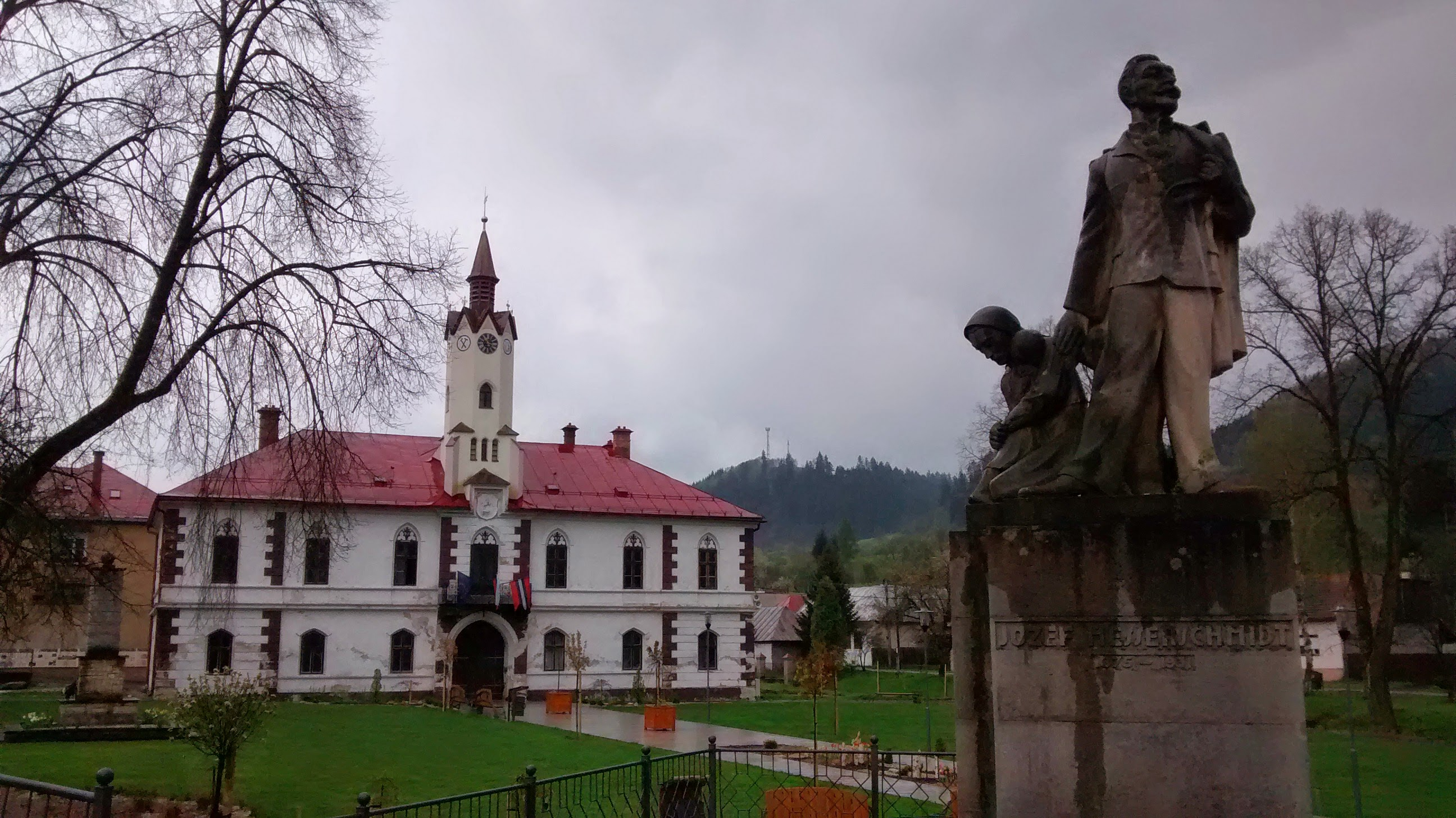 Lubietova